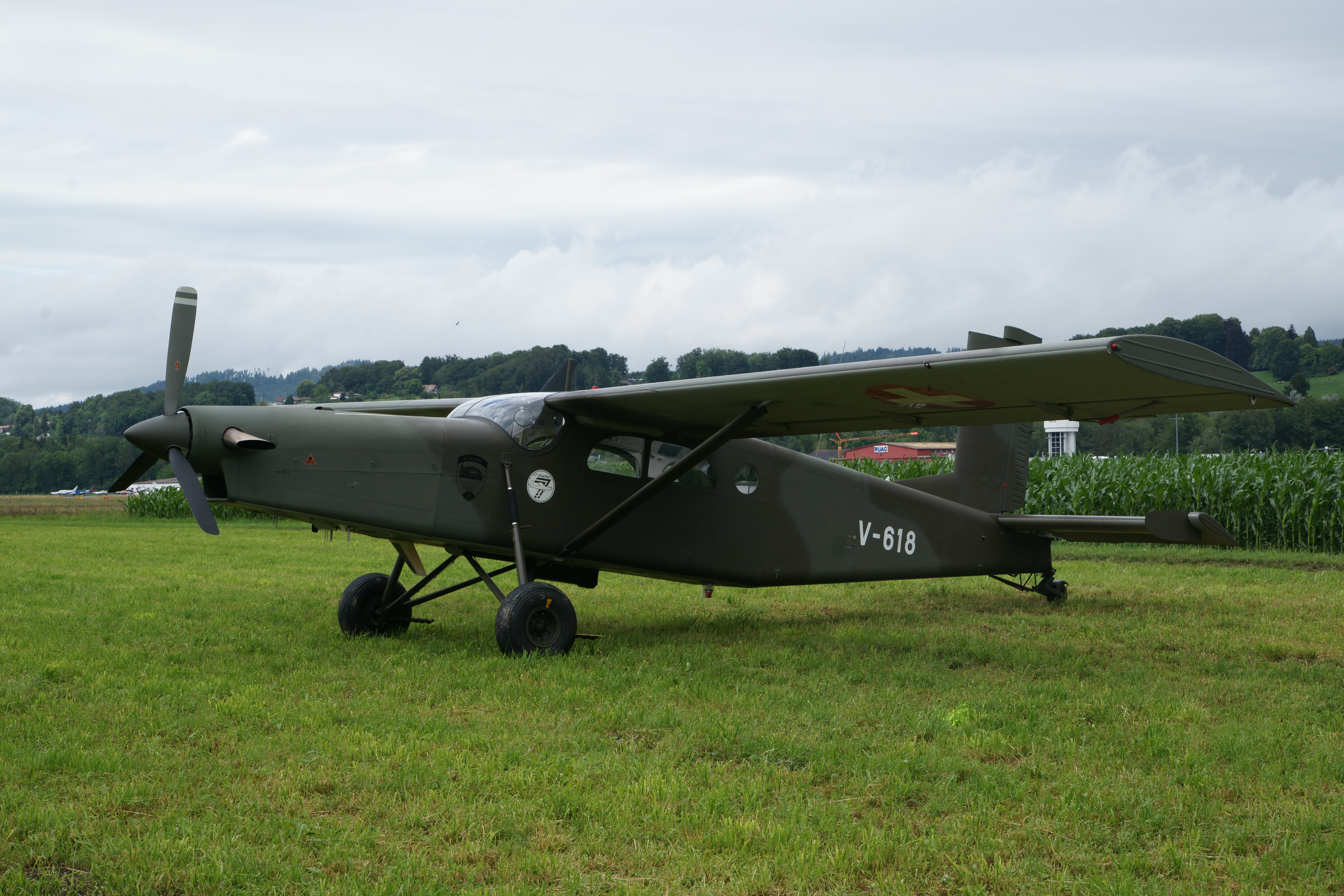 Swiss Air Force Pilatus PC-6 V-618 parked at the IBT'11 air show, Bern-Belp airport, Switzerland.